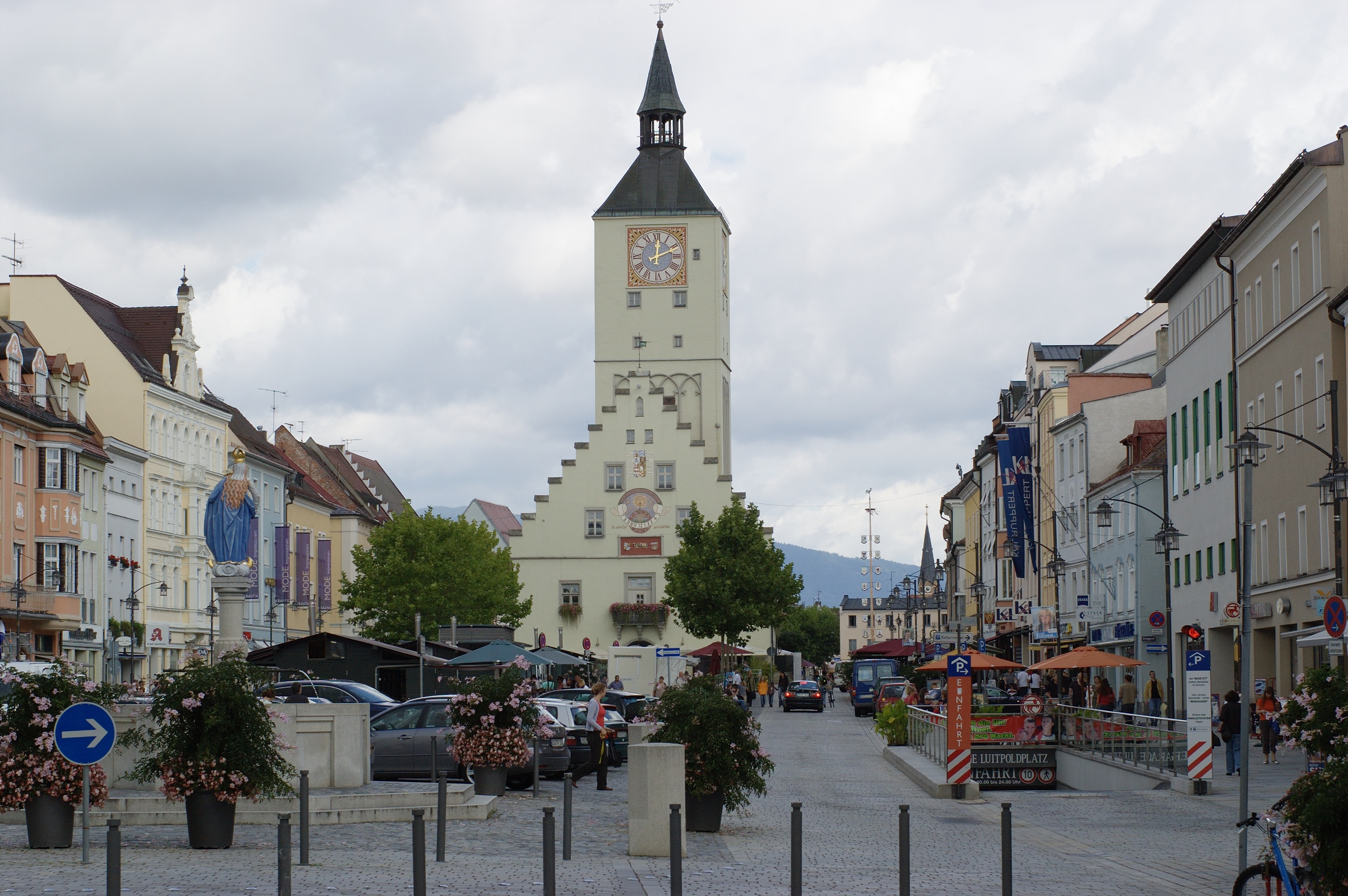 The city center of Deggendorf, Bavaria, Germany.